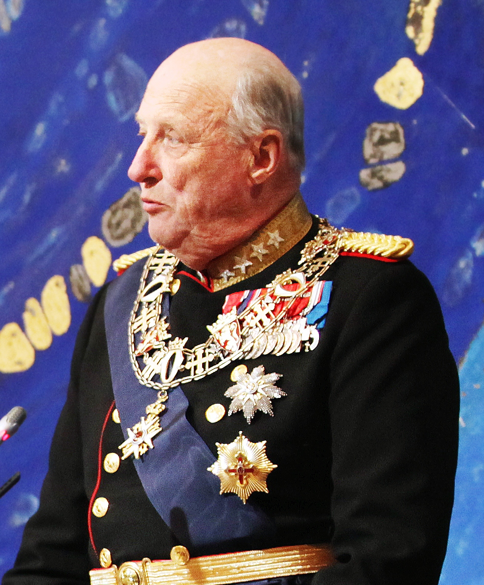 Photo: Kenneth Hætta